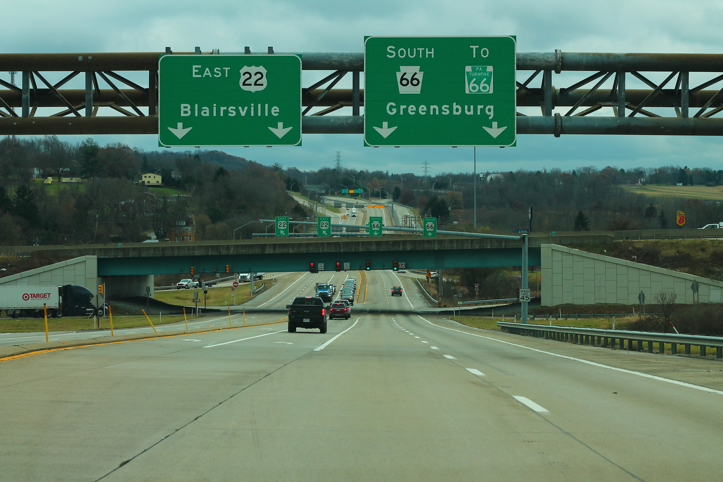 PA66sRoad-US22eSign